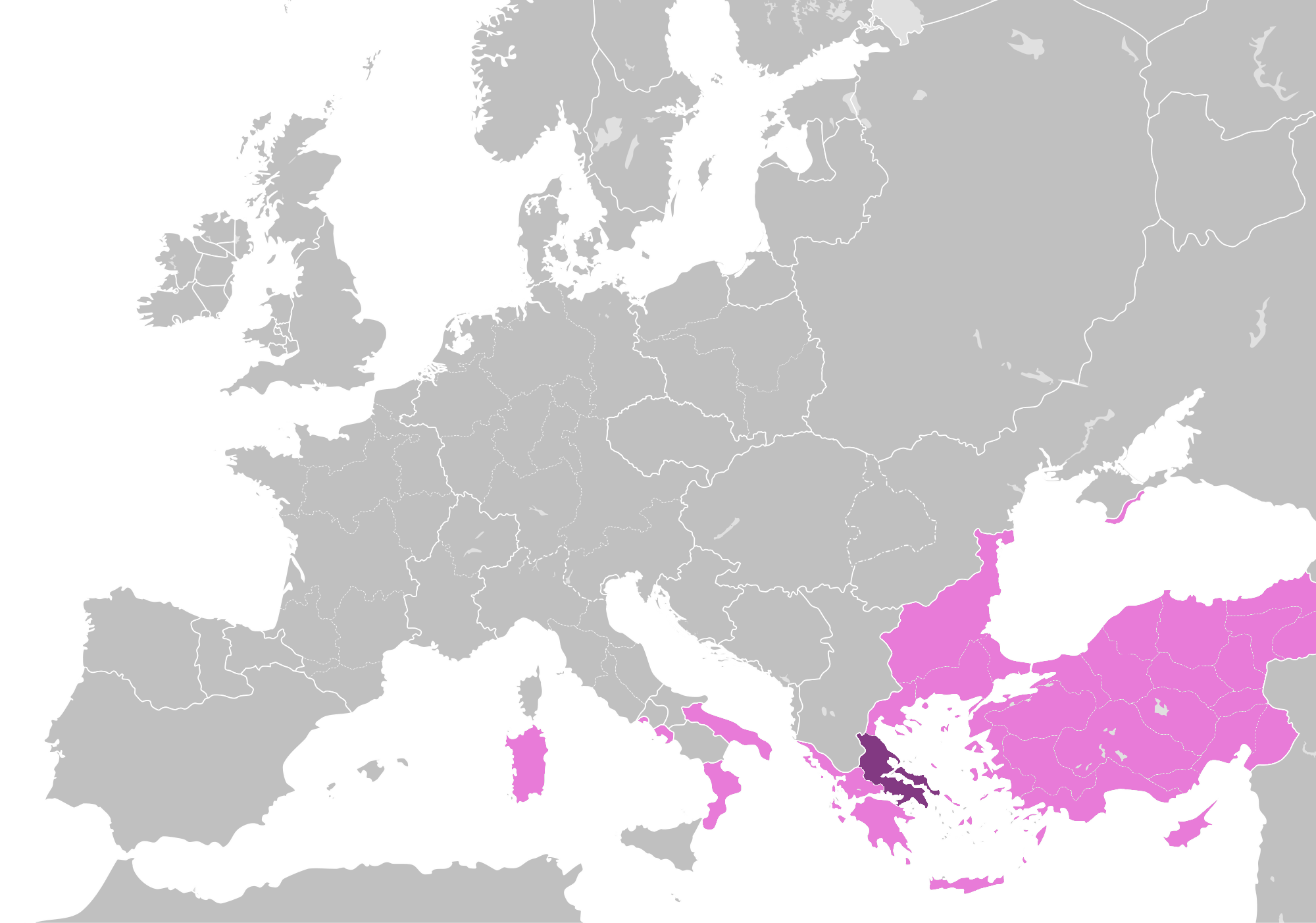 Map of the Hellas Theme within the Byzantine Empire in 1000 AD. Based on